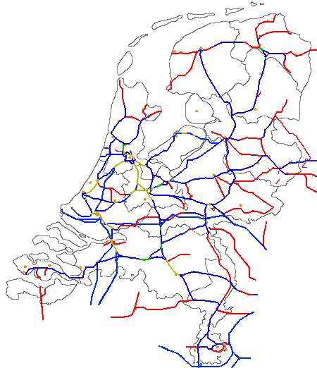 A map with the amount of rails on a line in the Dutch railway network.